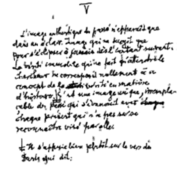 5th thesis of W. Benjamin`s "On the Concept of History", "french version".